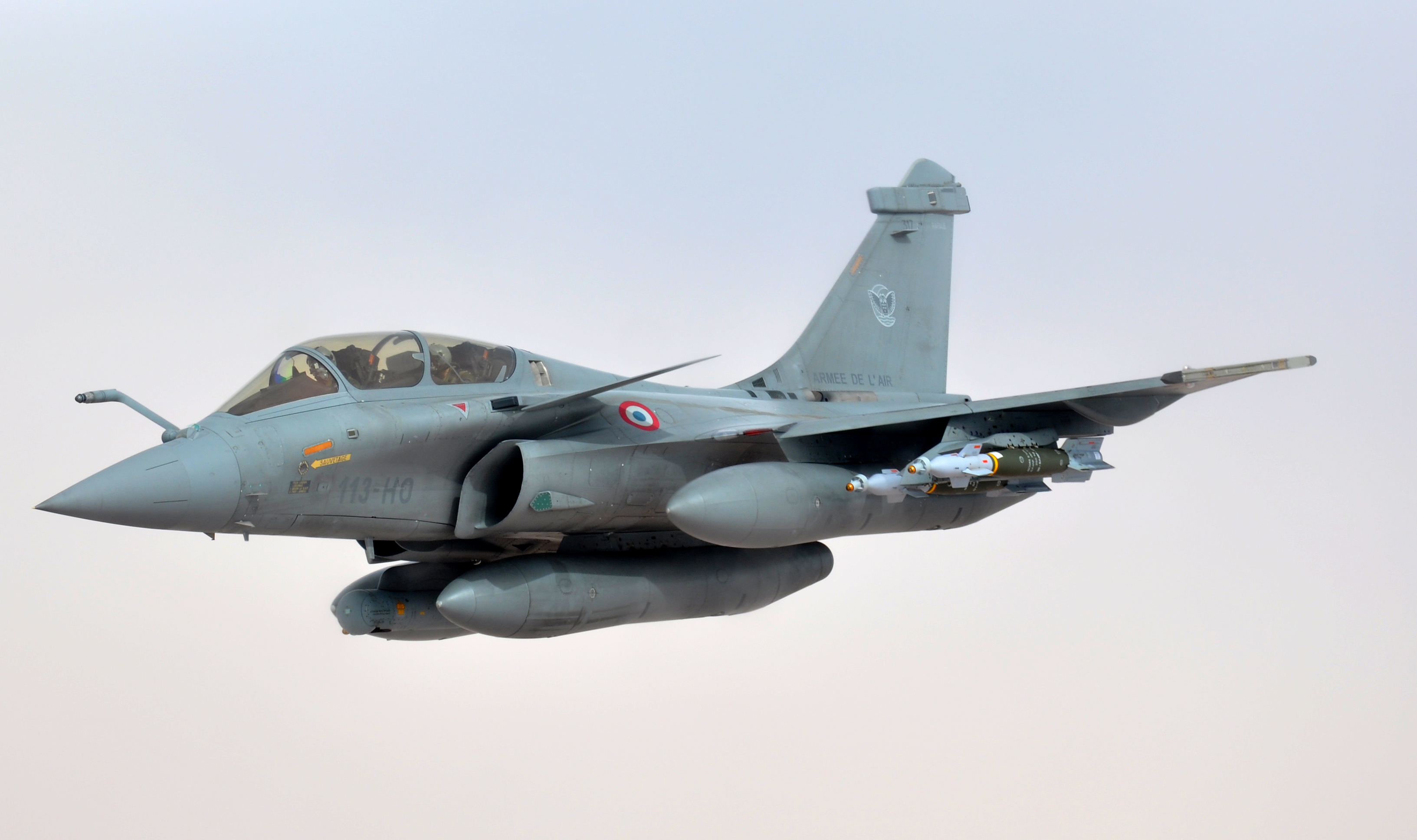 A French air force Rafale-B aircraft of squadron 2/92 "Aquitaine" breaks formation after refueling from a U.S. Air Force KC-135 Stratotanker aircraft assigned to the 351st Expeditionary Air Refueling Squadron (EARS) over an undisclosed location, March 17, 2013. The 351st EARS completed the 100th refueling mission of French air force aircraft conducting operations over Mali. U.S. Air Force aircraft under U.S. Africa Command provided logistical support to French forces in support of France's efforts to restore security in Mali.